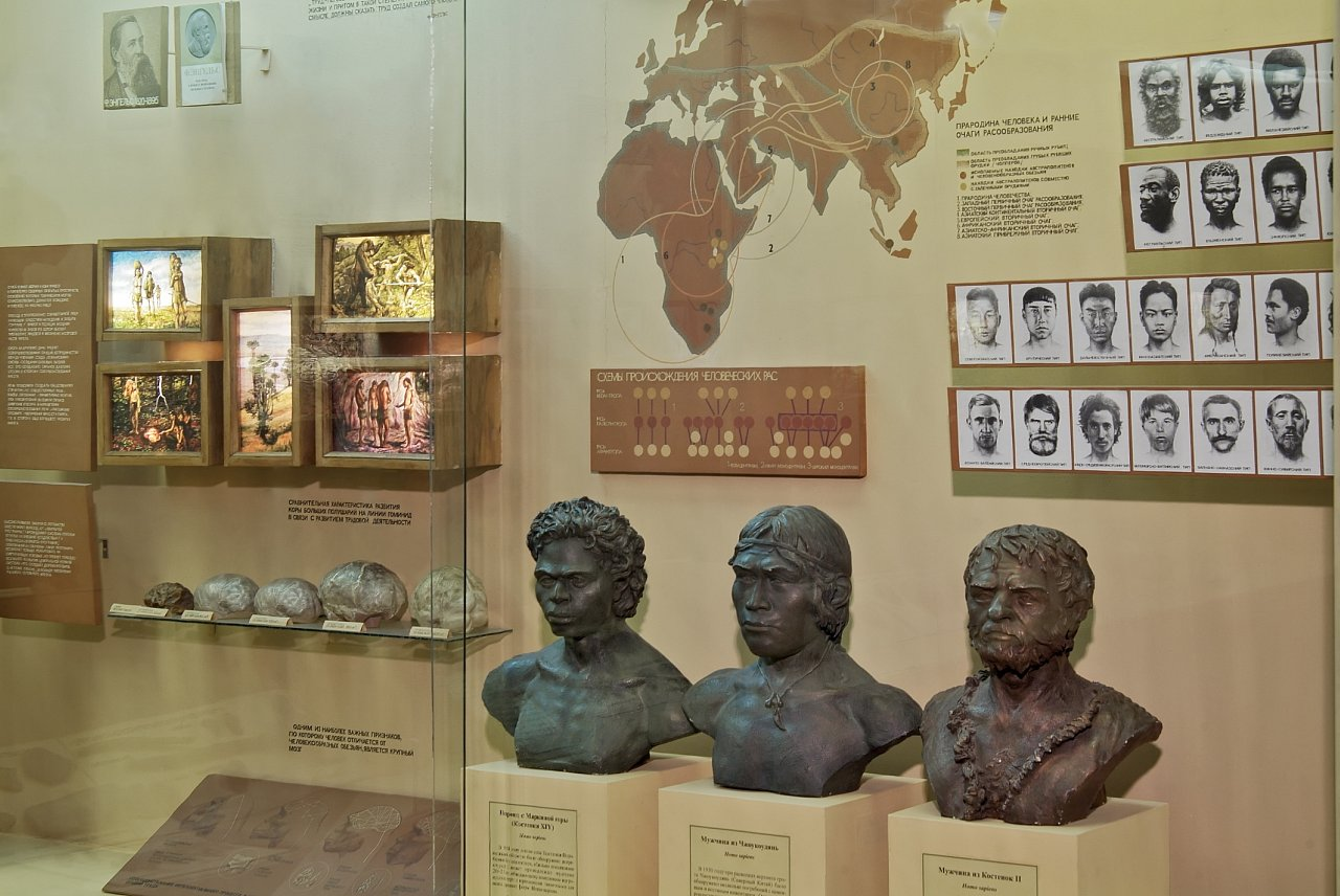 hall 8 of rusian state biological museum named after timiryazev